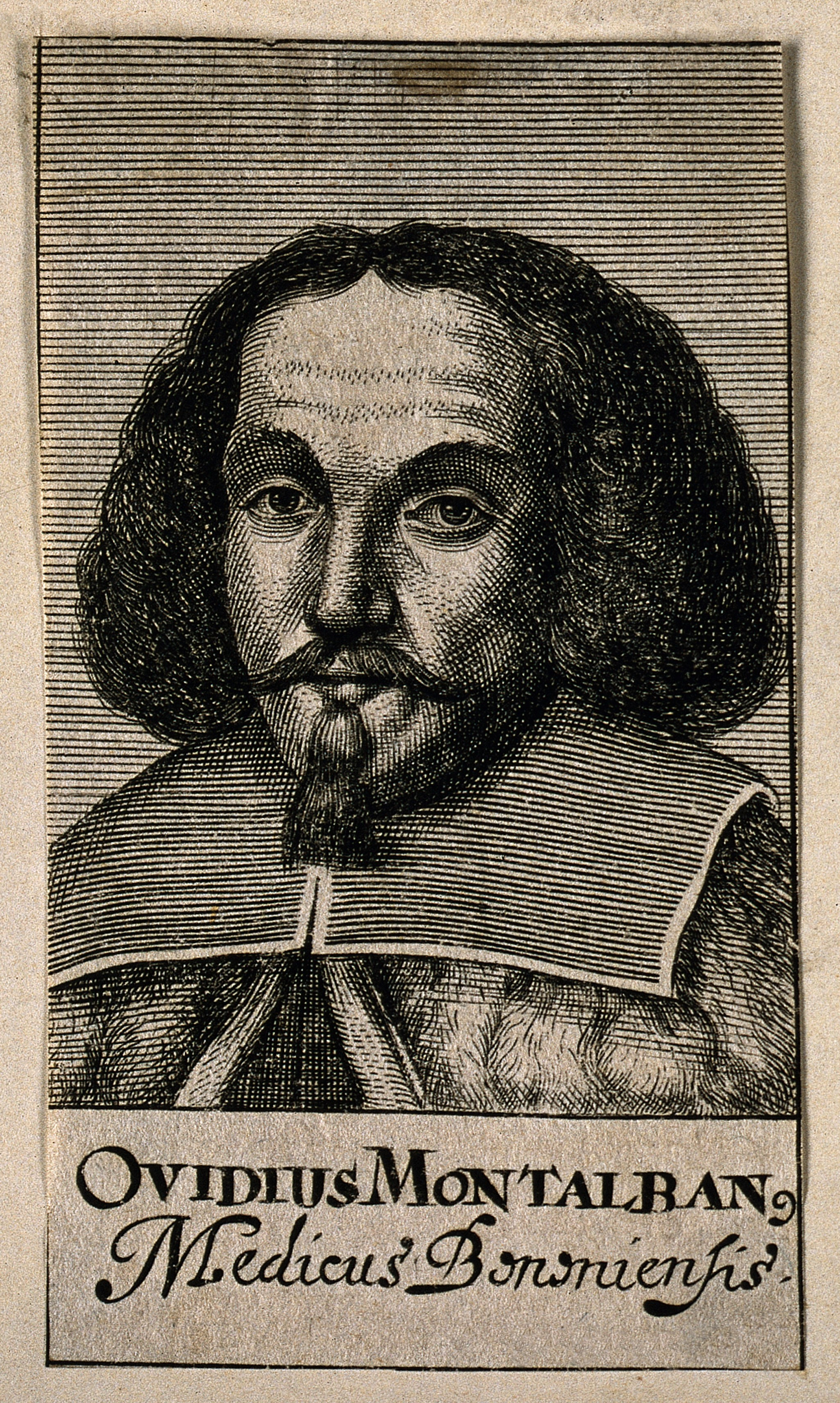 Ovidio Montalbani. Line engraving, 1688. Iconographic Collections Keywords: portrait prints; engravings; Ovidio Montalbani